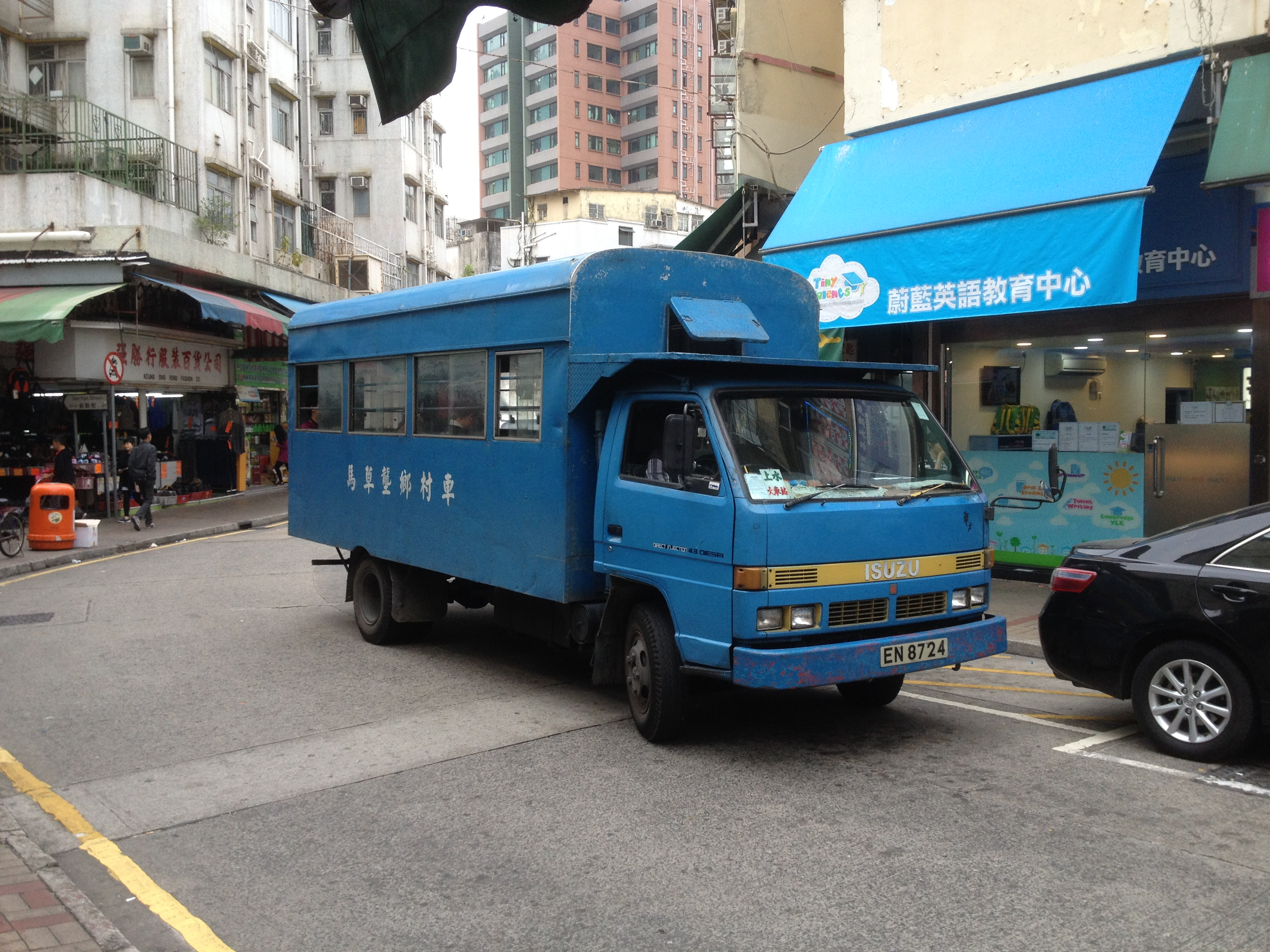 This photo is taken in Sheung Shui.